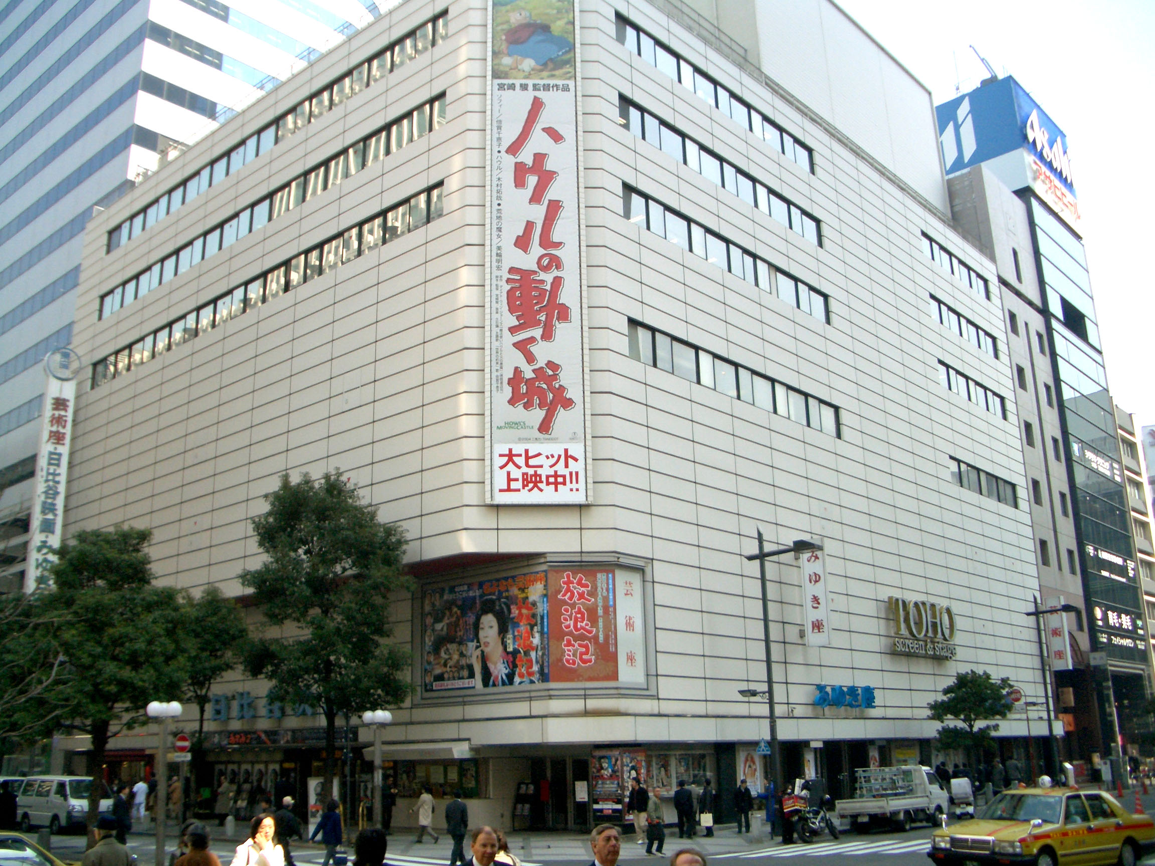 Toho Headquarters Building, 1-2-1 Yurakucho Chiyoda-ku Tokyo Japan.